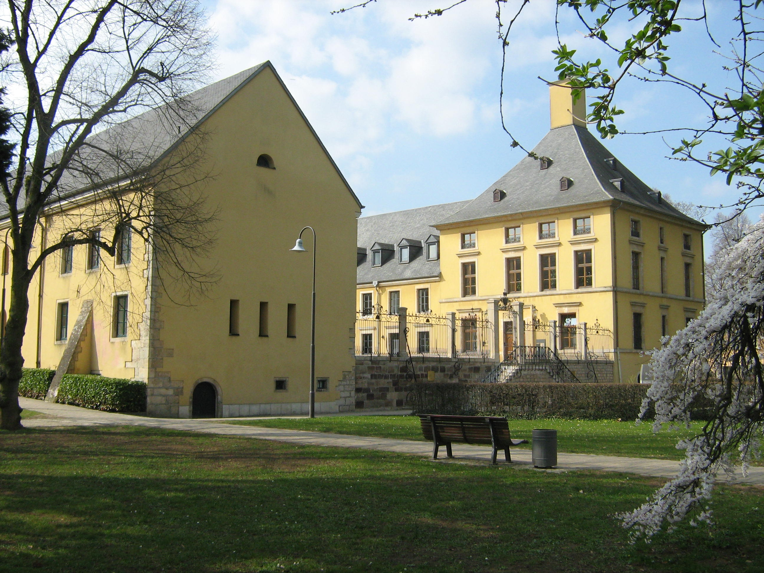 Bettembourg Castle, now the town hall of Bettembourg in the south of Luxembourg